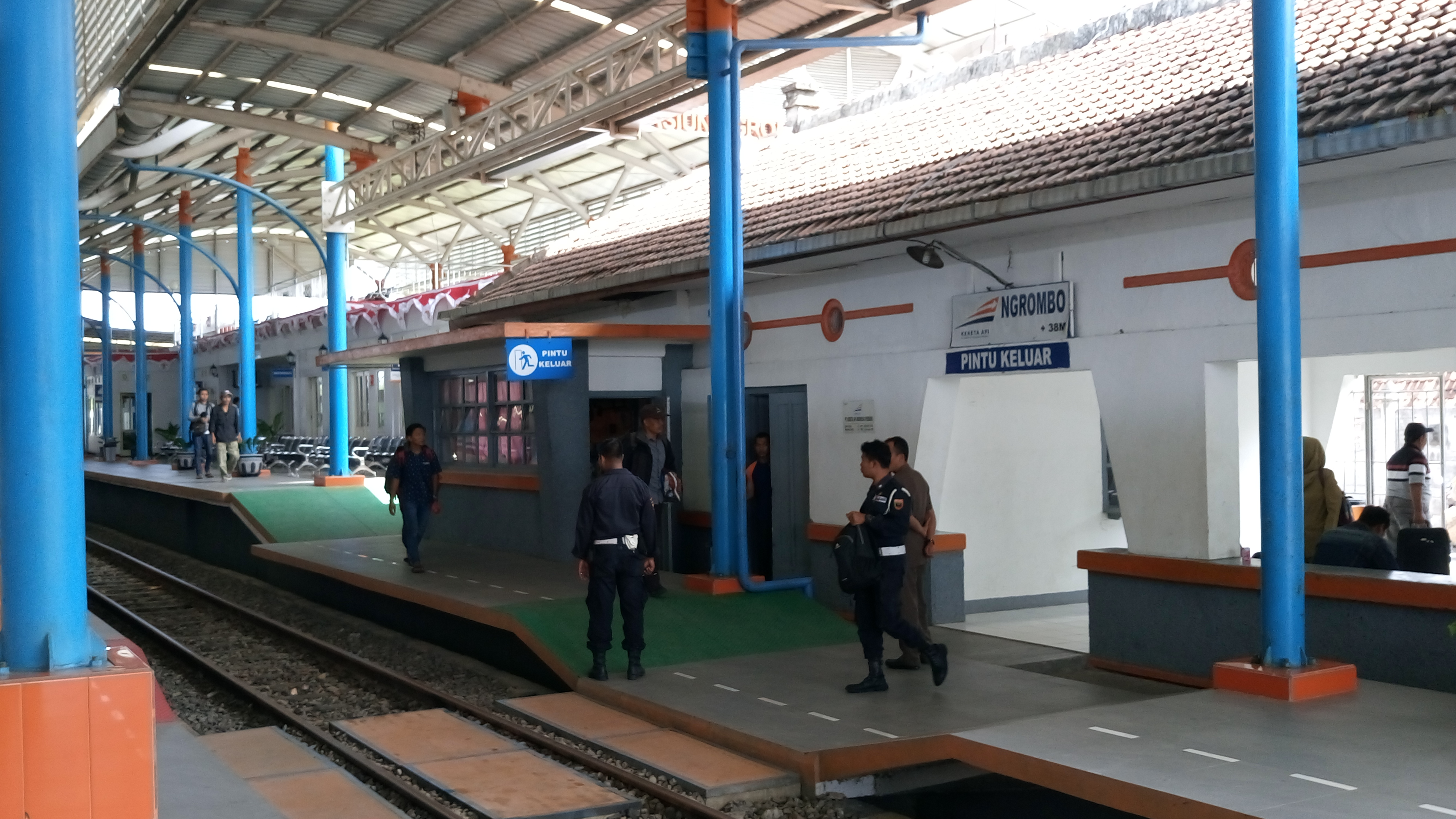 Inside of Ngrombo Station